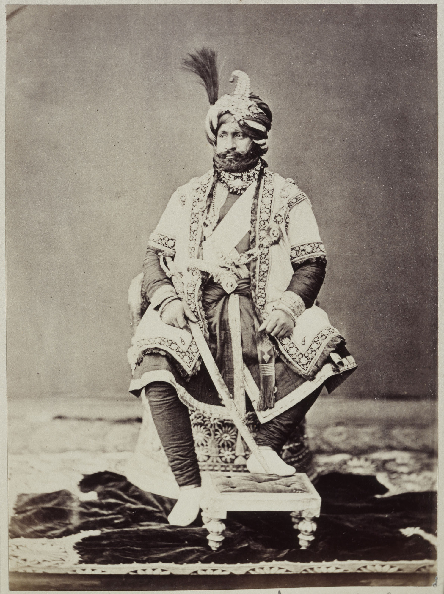 Photograph of H.H. Ranbir Singh, The late Maharajah of Kashmir